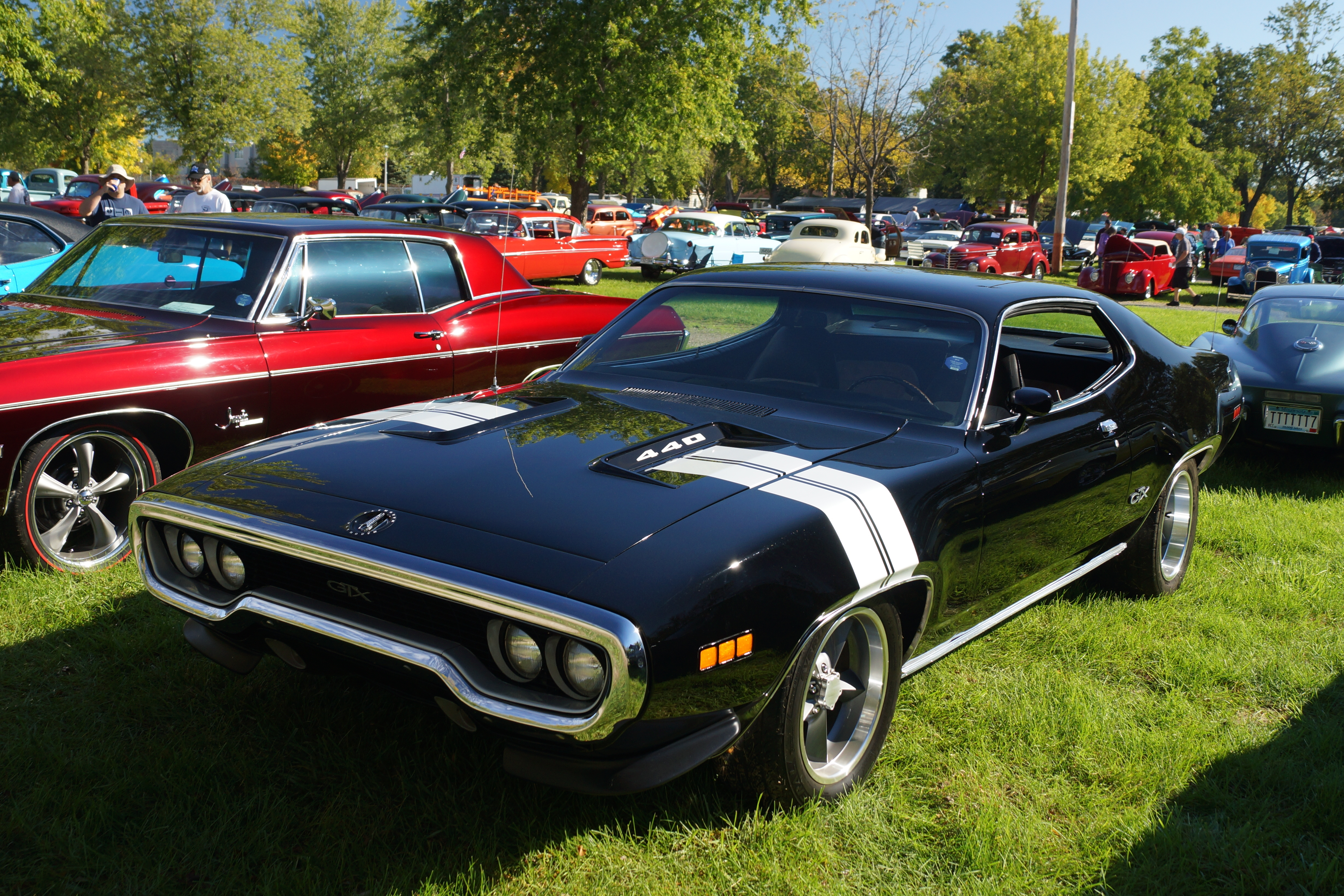 46th Annual Midwest Fall Swapmeet & Car Show Sponsored by the Capitol City Chapter of the AACA and the Twin Cities Model "A" Ford Club Minnesota State Fairgrounds St. Paul, Minnesota October 2016 Click here for more car pictures at my Flickr site. Click here for more car pictures at my Tumblr site.